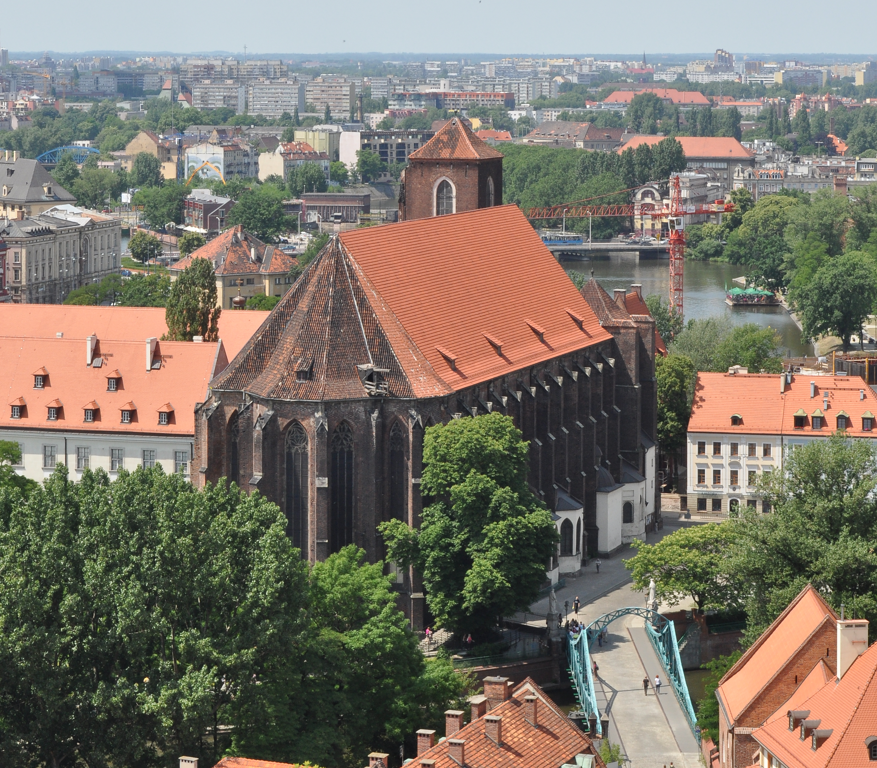 Virgin Mary church in Wrocław